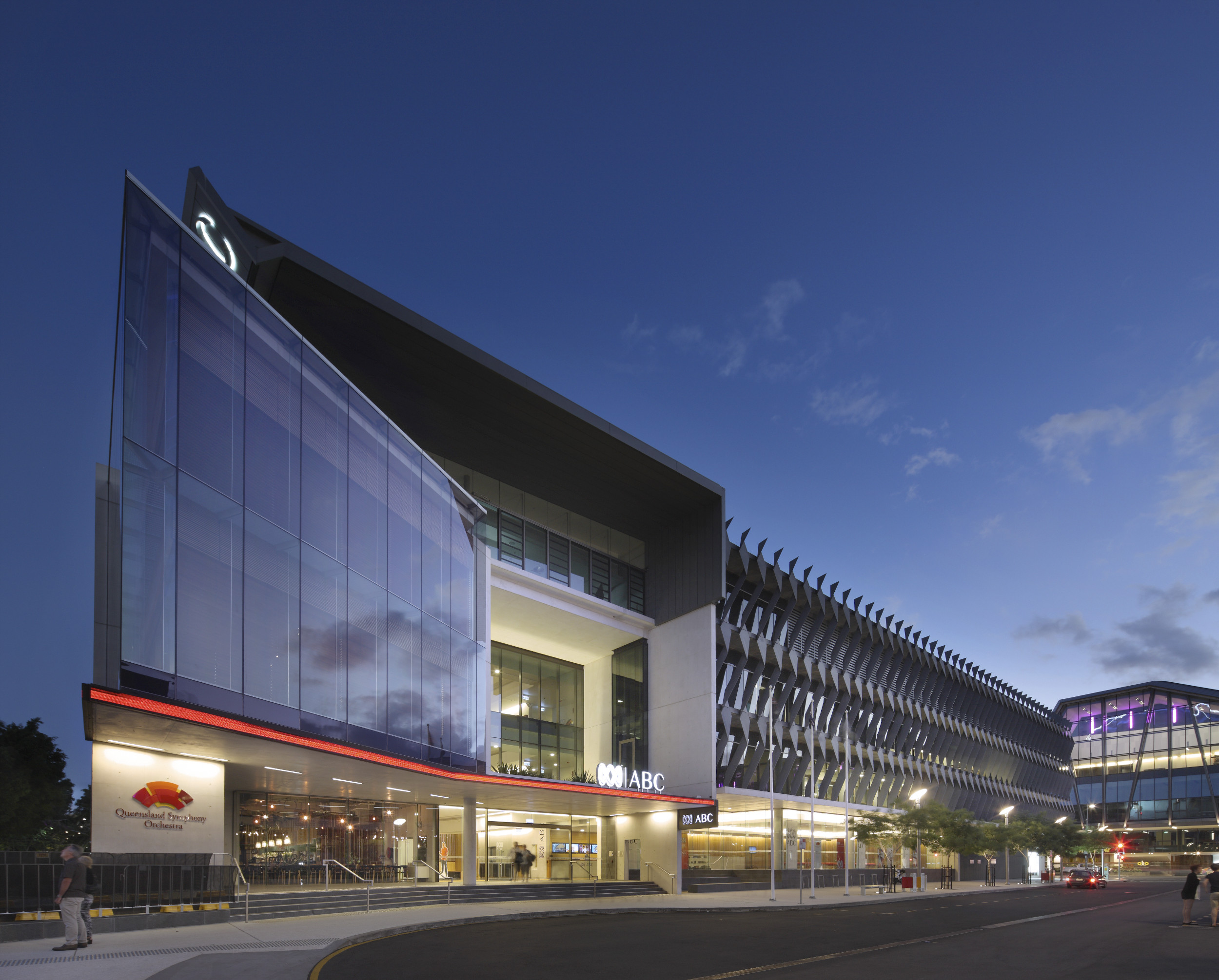 ABC Headquarters